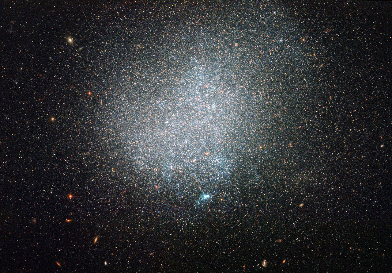 UGC 9240 (DDO 190) galaxy. Photo taken by HST.